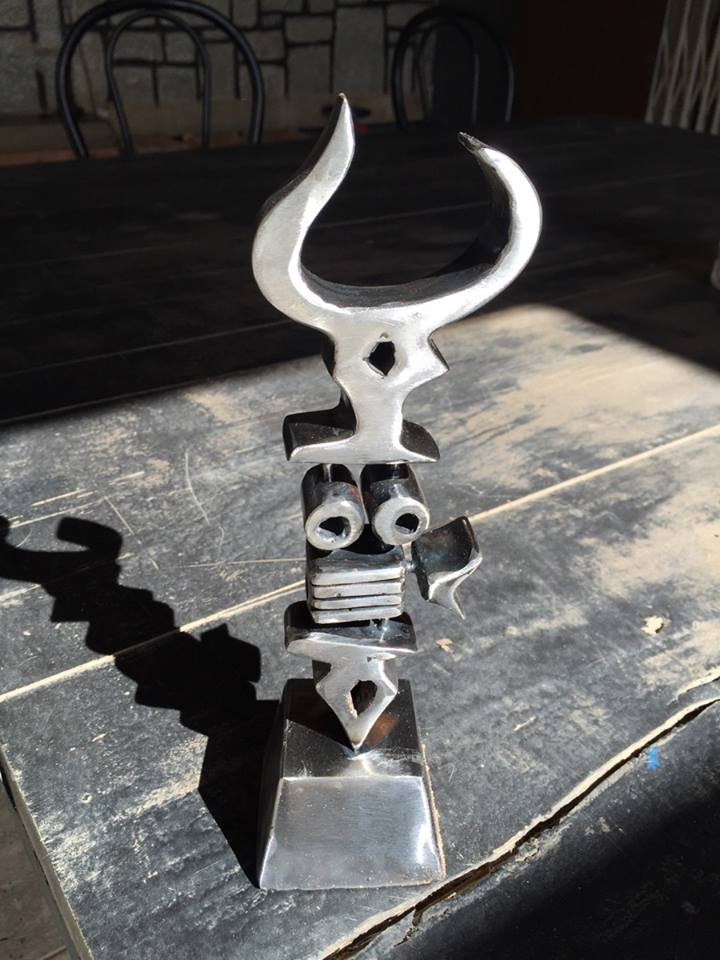 Zebu d'or